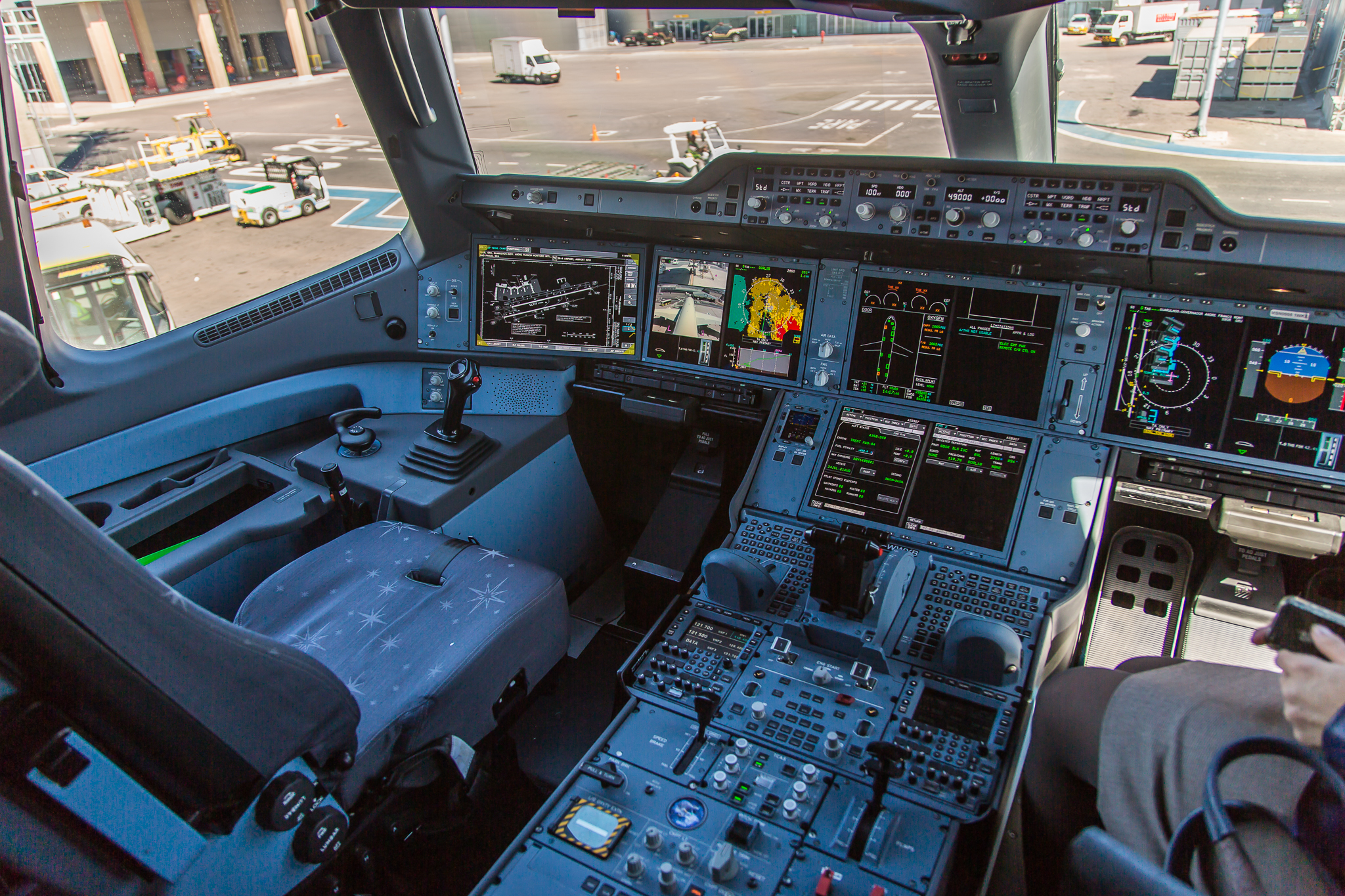 Cockpit view of Airbus A-350 XWB F-WWYB.